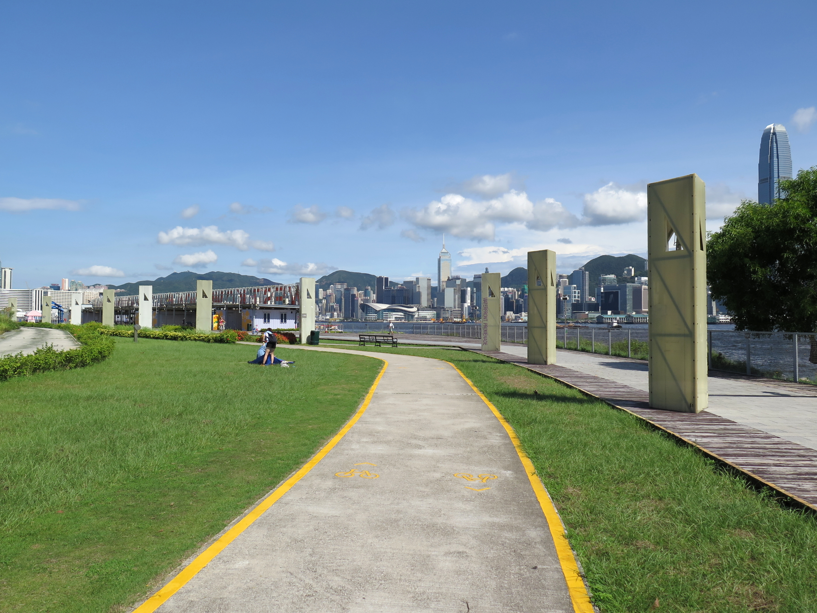 West Kowloon Waterfront Promenade